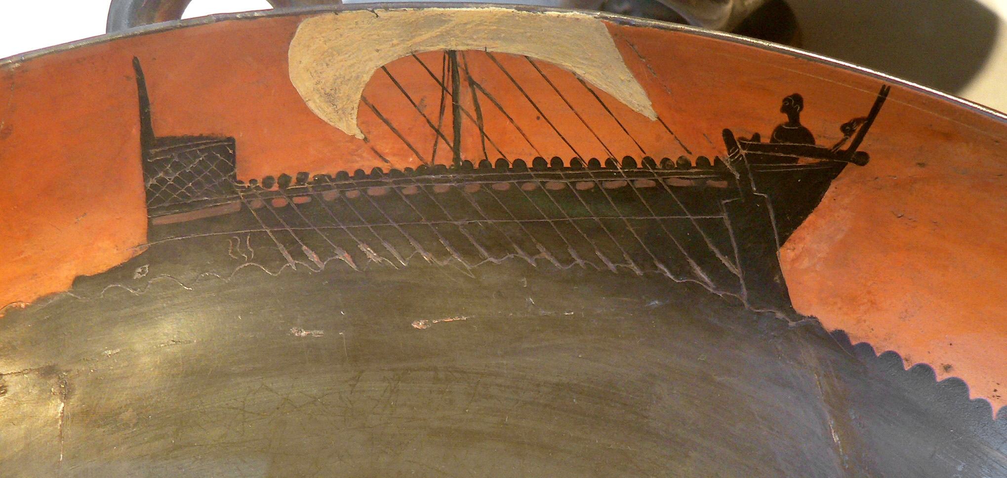 Boats cup, detail of the interior showing a frieze of five boats in contest. Attic black-figured cup, ca. 520 BC. From Cerveteri.